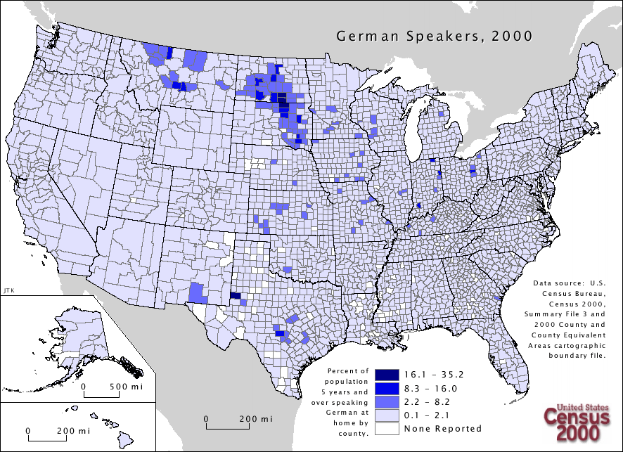 Use of the German language in the United States by county according to the 2000 census